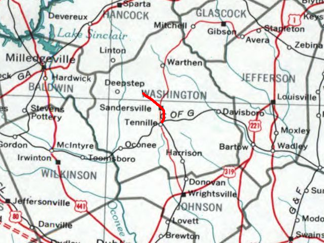 map of the Sandersville Railroad based on the [ The national atlas of the United States of America 1970